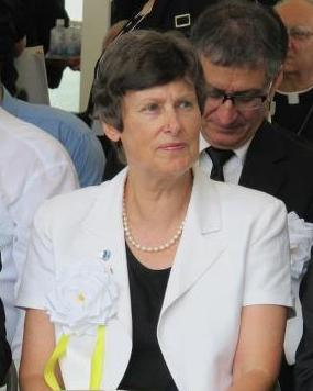 UN Head of Disarmament Affairs Angela Kane and CTBTO Head Tibor Tóth attend Nagasaki's Peace Memorial Ceremony. Photo by CTBTO